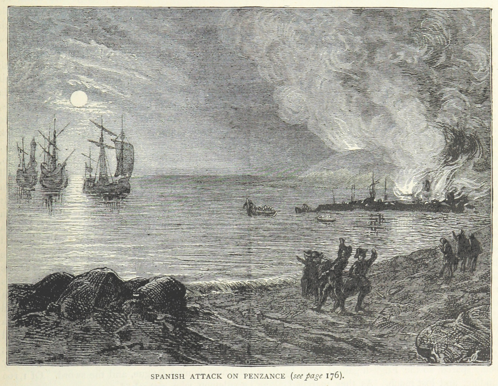 The Spanish attack on Penzance in 1595, part of the Battle of Cornwall.